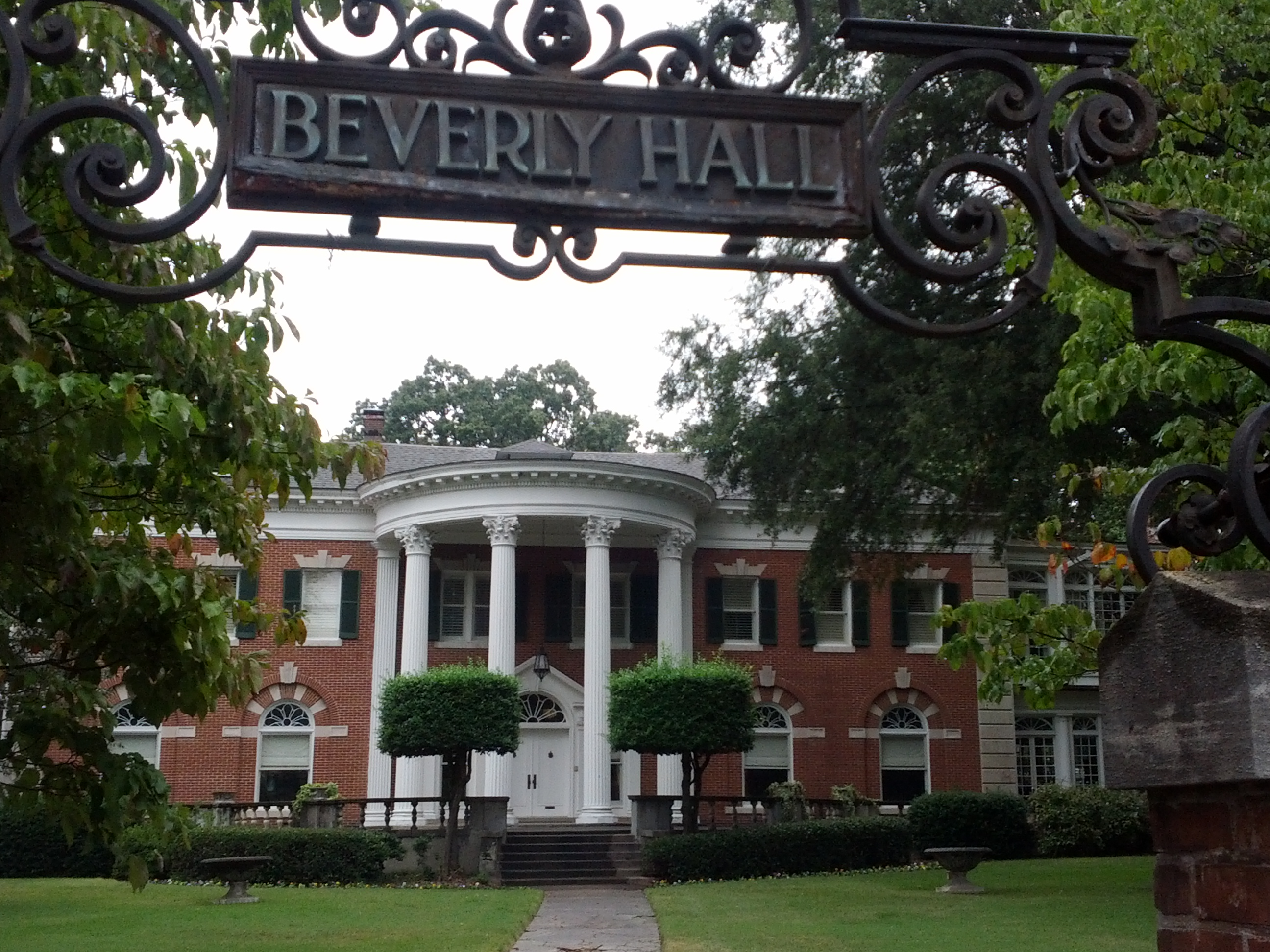 Greenwood